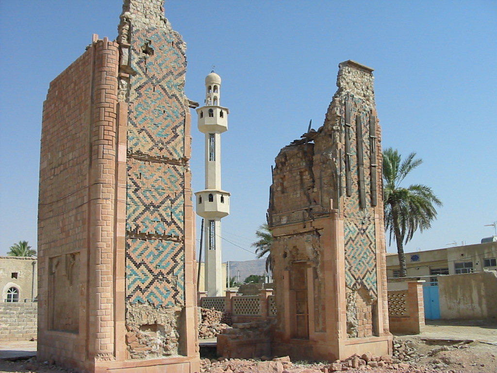 This is the Gate of Khonj, it dates back to BCE era. At the Shaykh Haji Mohammad complex, Fars Province in Iran. as one of the authors of I give permission for this photo to be used in Wikipedia. (I took this photo myself).